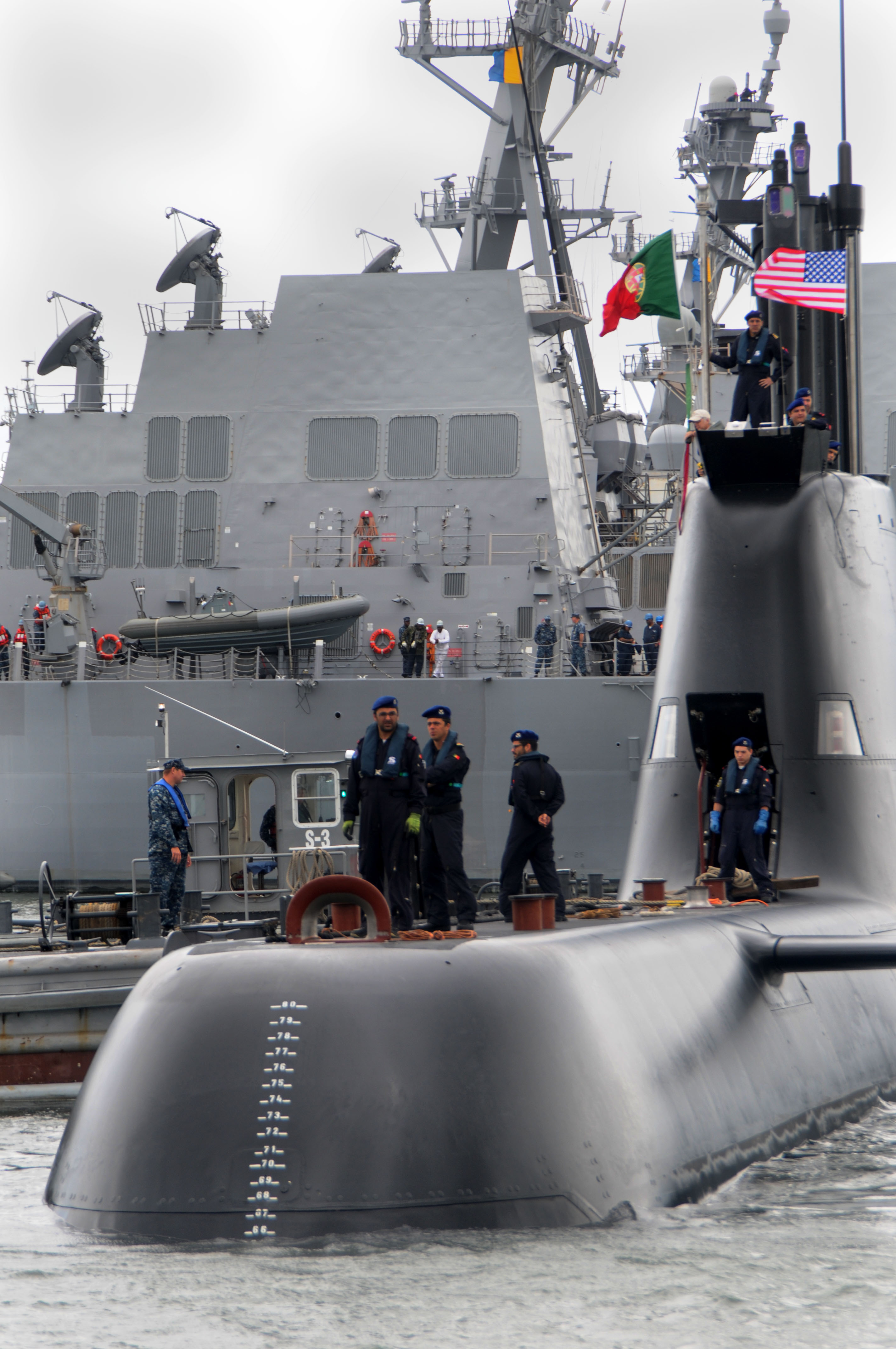 NORFOLK (June 14, 2012) The Portuguese navy submarine NRP Tridente (S 160) arrives at Naval Station Norfolk. Tridente is scheduled to participate in the multinational fleet training exercise War of 1812 June 19-29. (U.S. Navy Photo by Mass Communication Specialist 3rd Class Karen Blankenship/Released) 120614-N-XY604-059 Join the conversation navylive.dodlive.mil